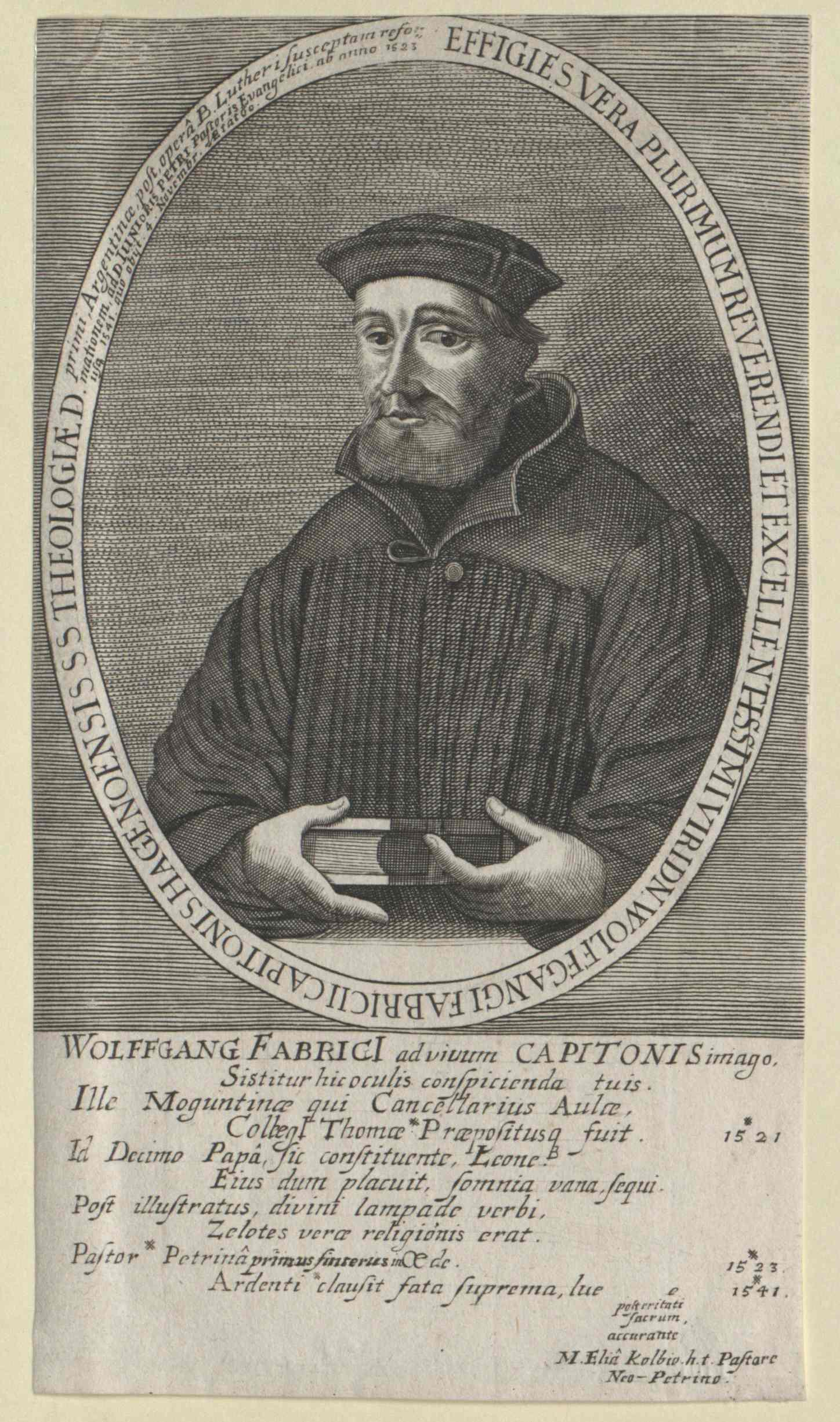 Vienna, Austrian National Library, Picture Archives and Graphics Collection, Portrait Collection, inventory no. PORT_00018642_01